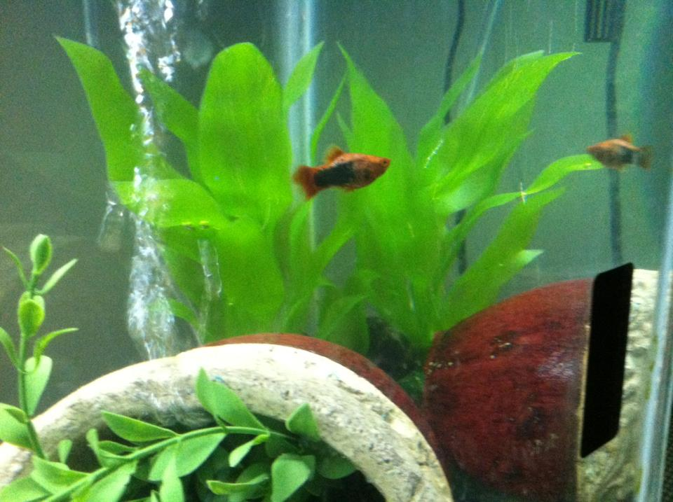 male platy, 24 karat gold breed, freshwater